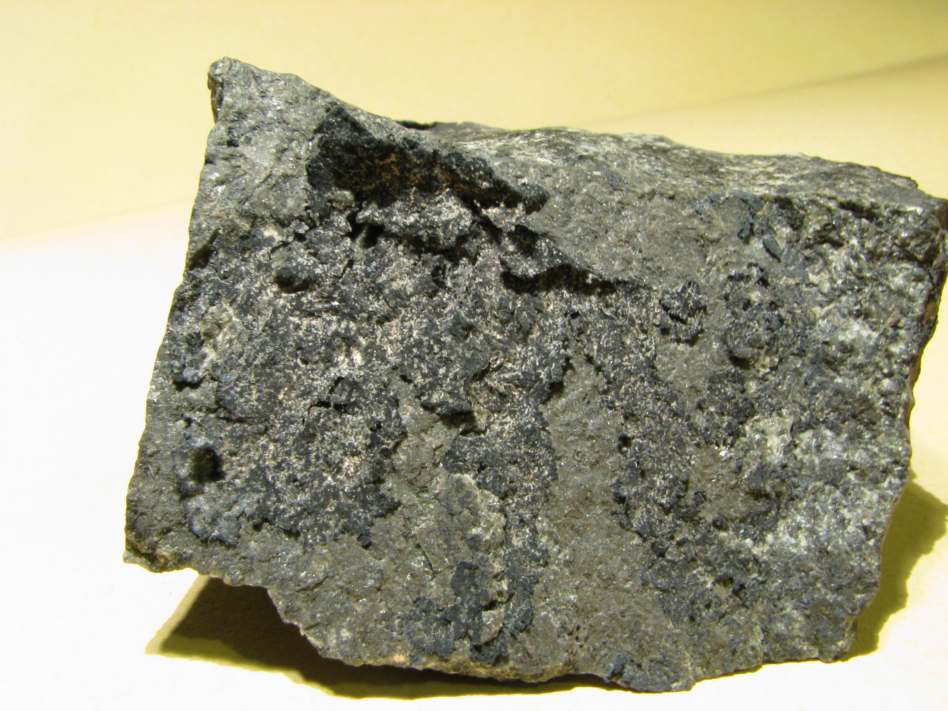 Silver - foil in matrix, Cobalt, Ontario, Canada